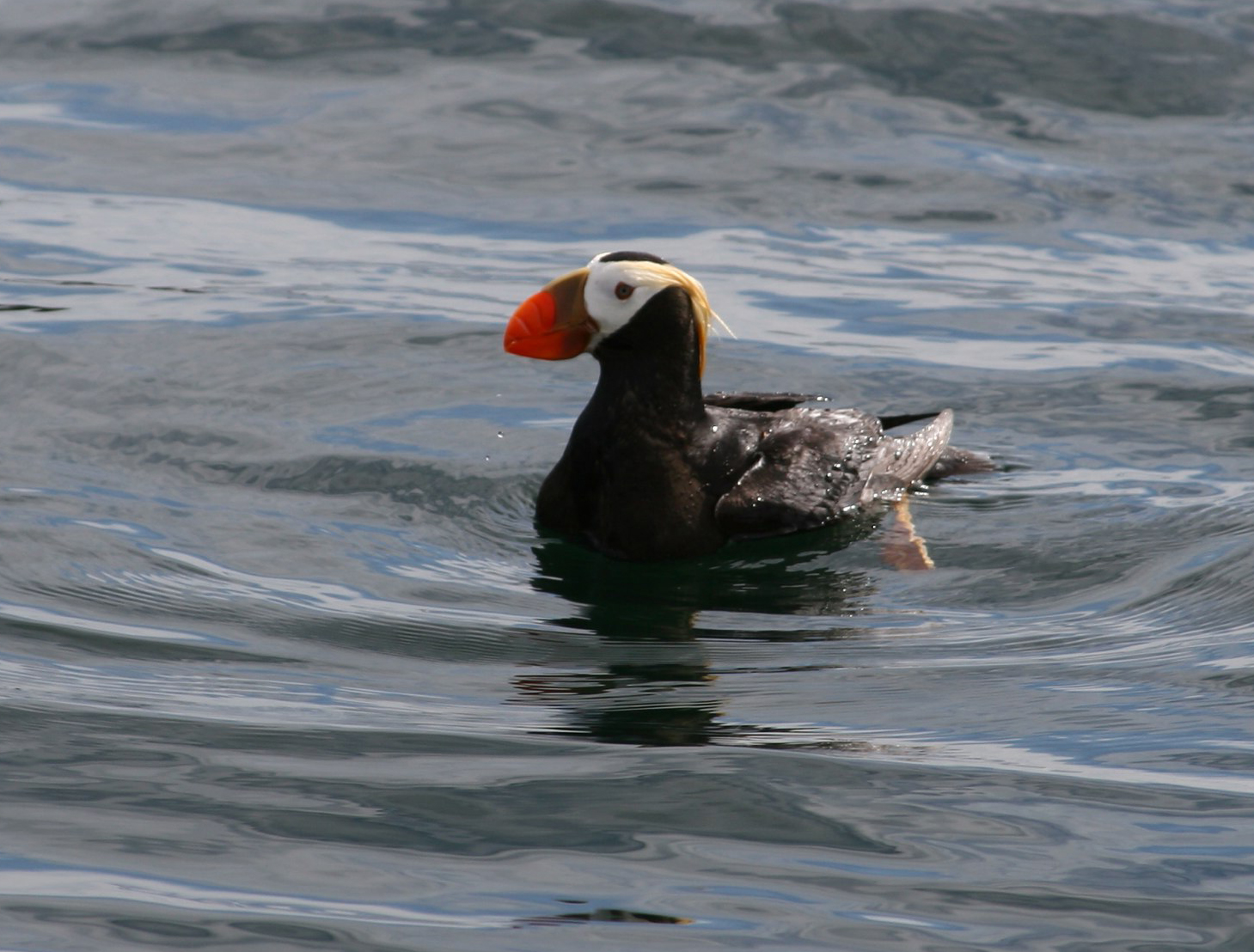 Tufted Puffin Fratercula cirrhata, Sitka, Alaska.